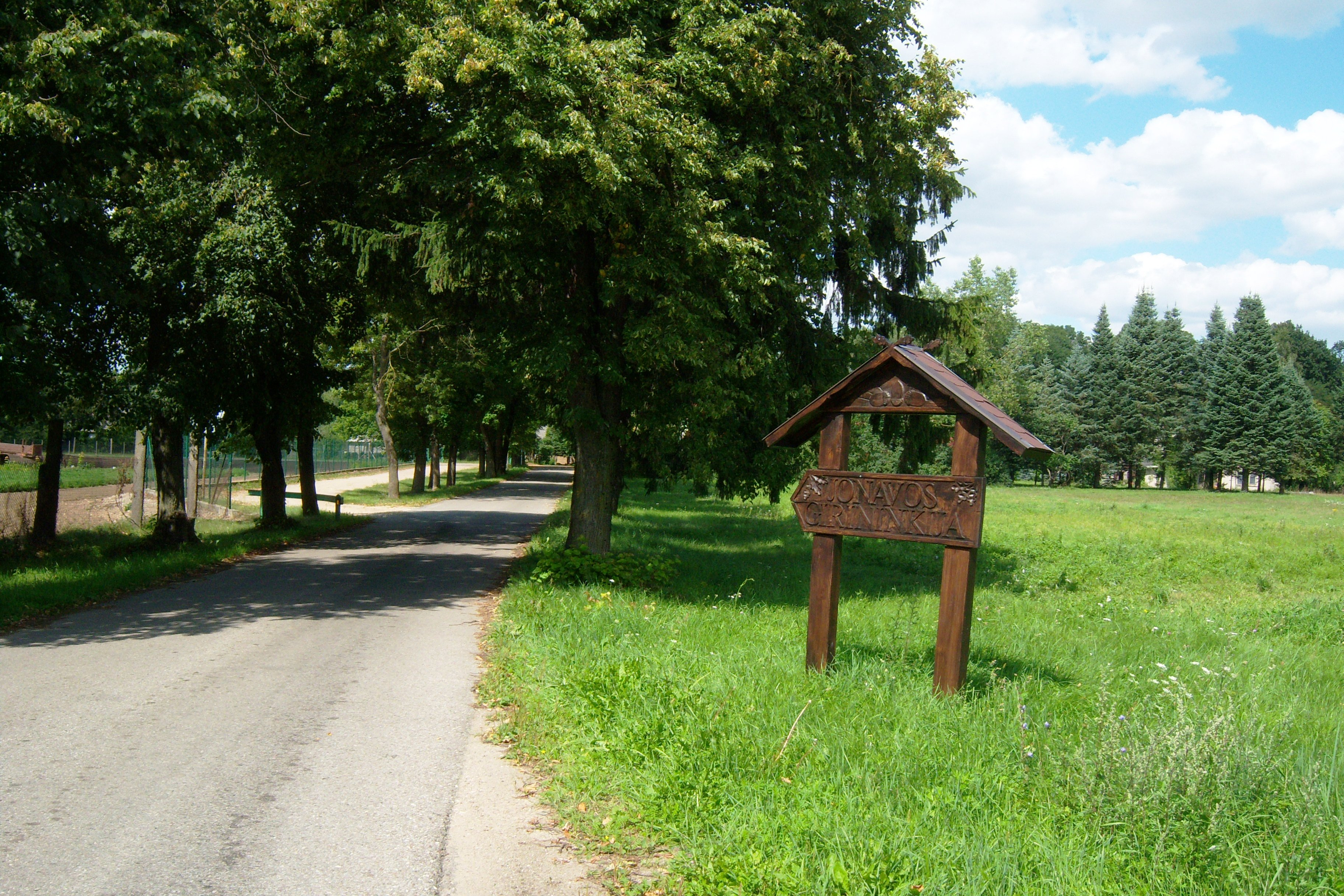 Jonava Forestry in Jadvygava,Jonava District